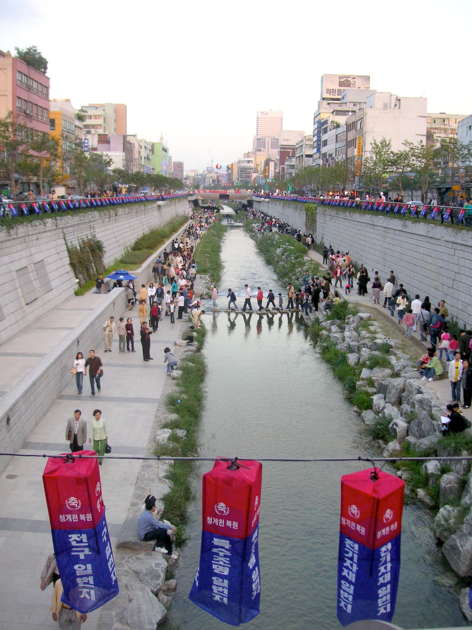 Cheonggyecheon (청계천) shortly after reopening way back in 2005. I recently rediscovered some of my almost ten year old pictures and I'm providing them here for historical purposes.